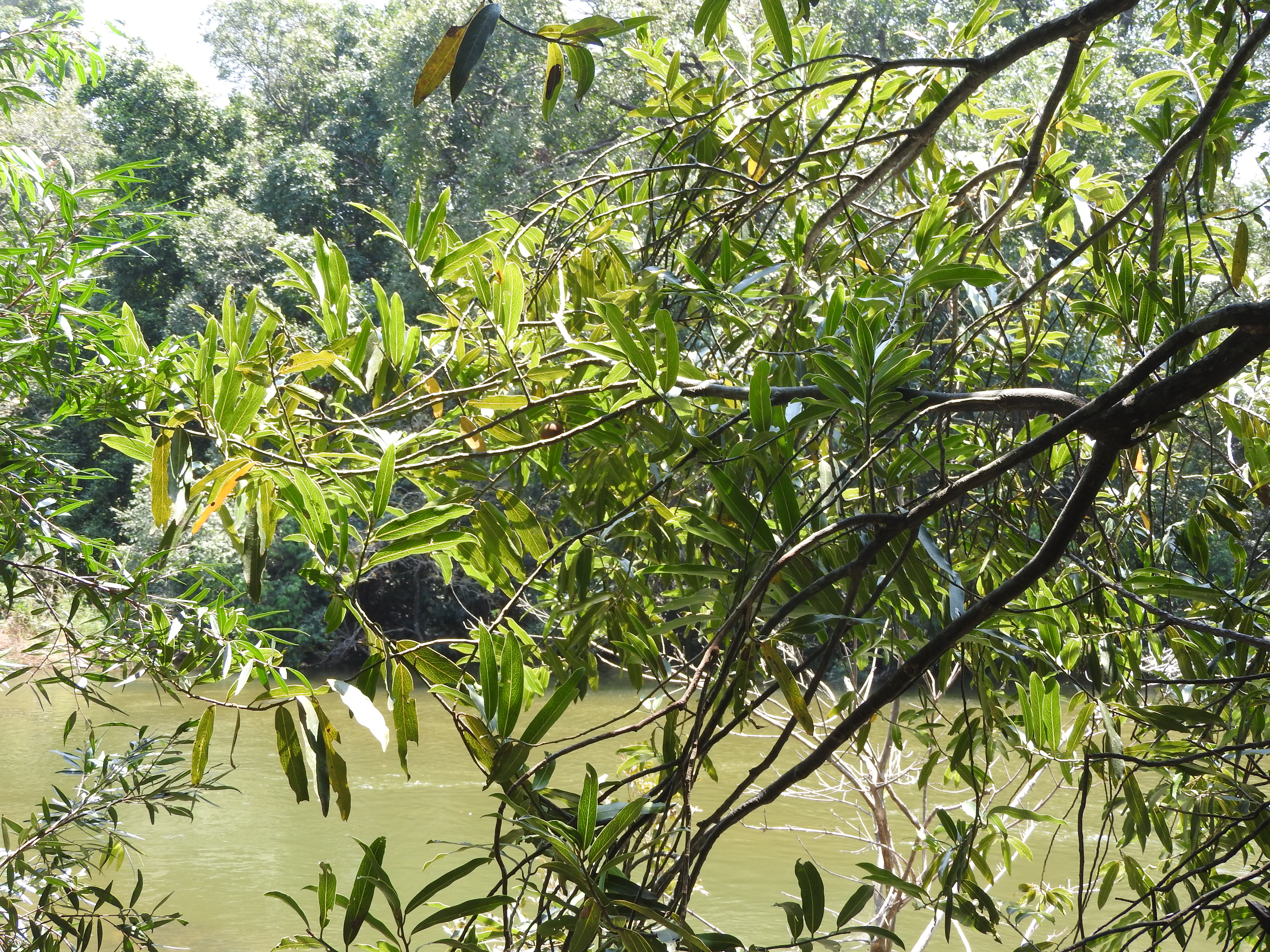 Ebanaceae-vellaithuvarei;tree,flowers bright yellow,fruits brown then yellow.